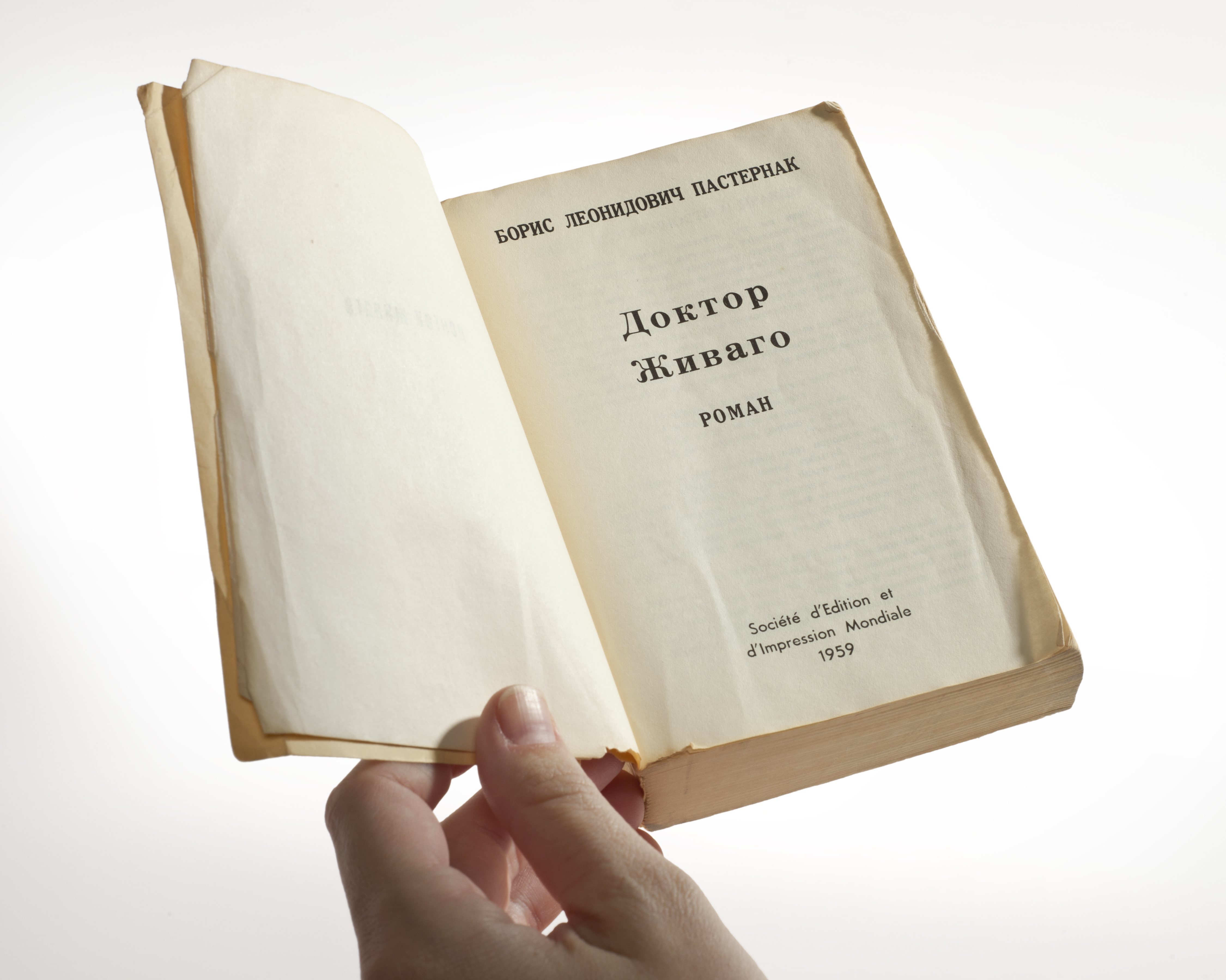 Copy of the original Russian-language edition of Doctor Zhivago, covertly published by the CIA. The front cover and the binding identify the book in Russian; the back of the book states that it was printed in France. For more information on CIA history and this artifact please visit